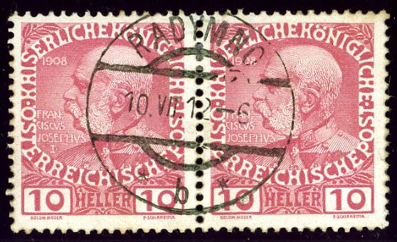 Austrian KK stamp, 10 heller pair, Jubilee, cancelled at RADYMNO (Galicia, Poland) in 1912